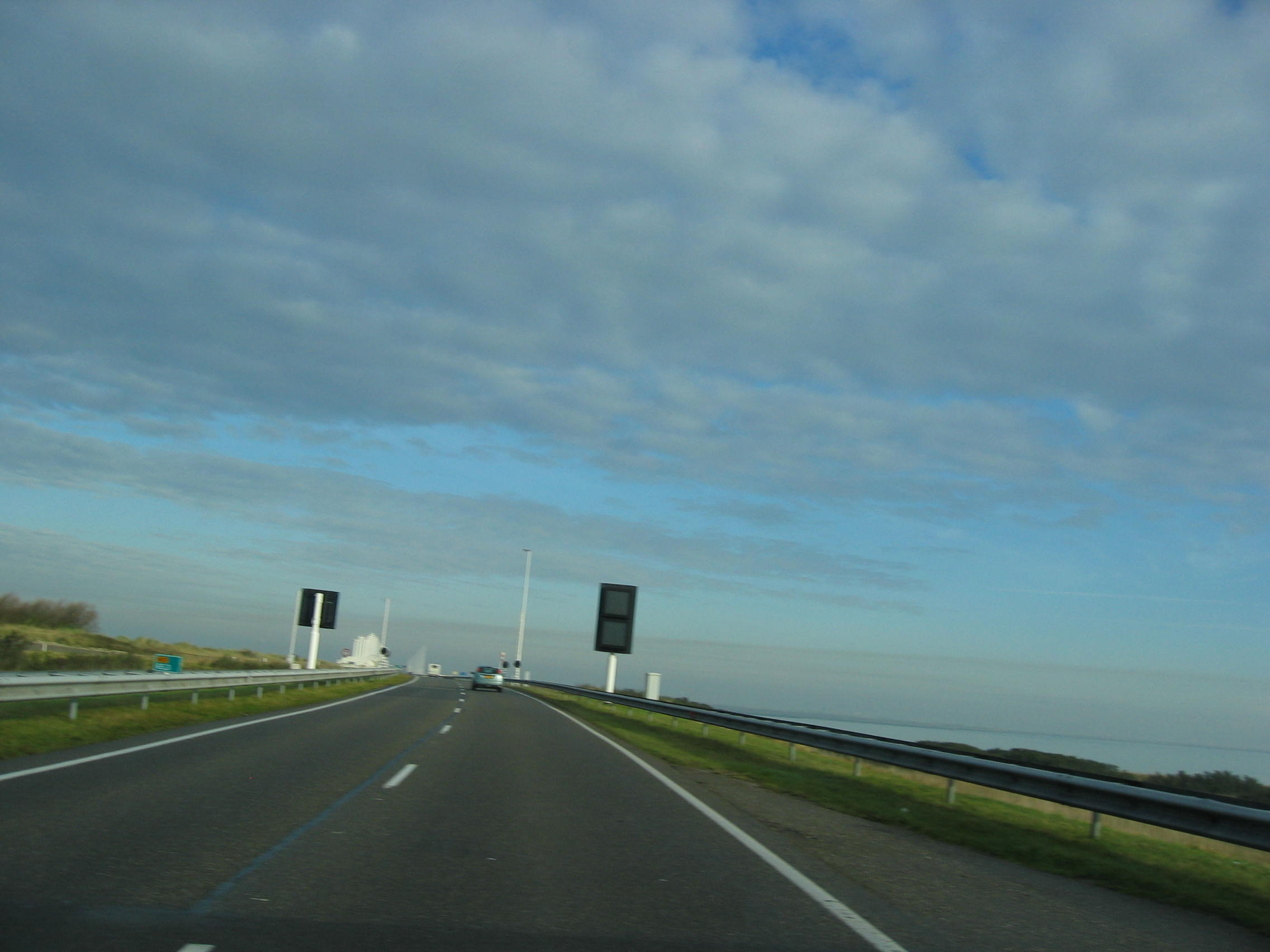 Picture of N57 (Netherlands) on the road between Walcheren and Noord-Beveland shortly before the connection between the isles (called "Veerse Gatdam"). Street: Stormvloedkering, NL-4354 Noord-Beveland.